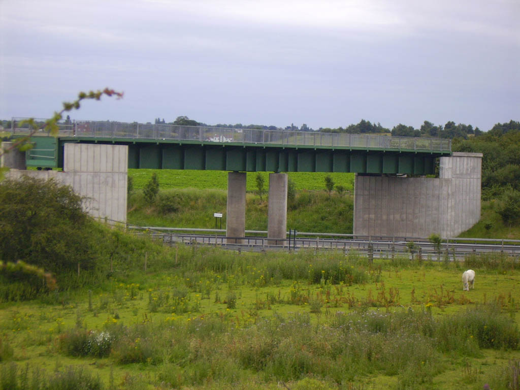 Lichfield Canal Aqueduct taken from the nearby A5